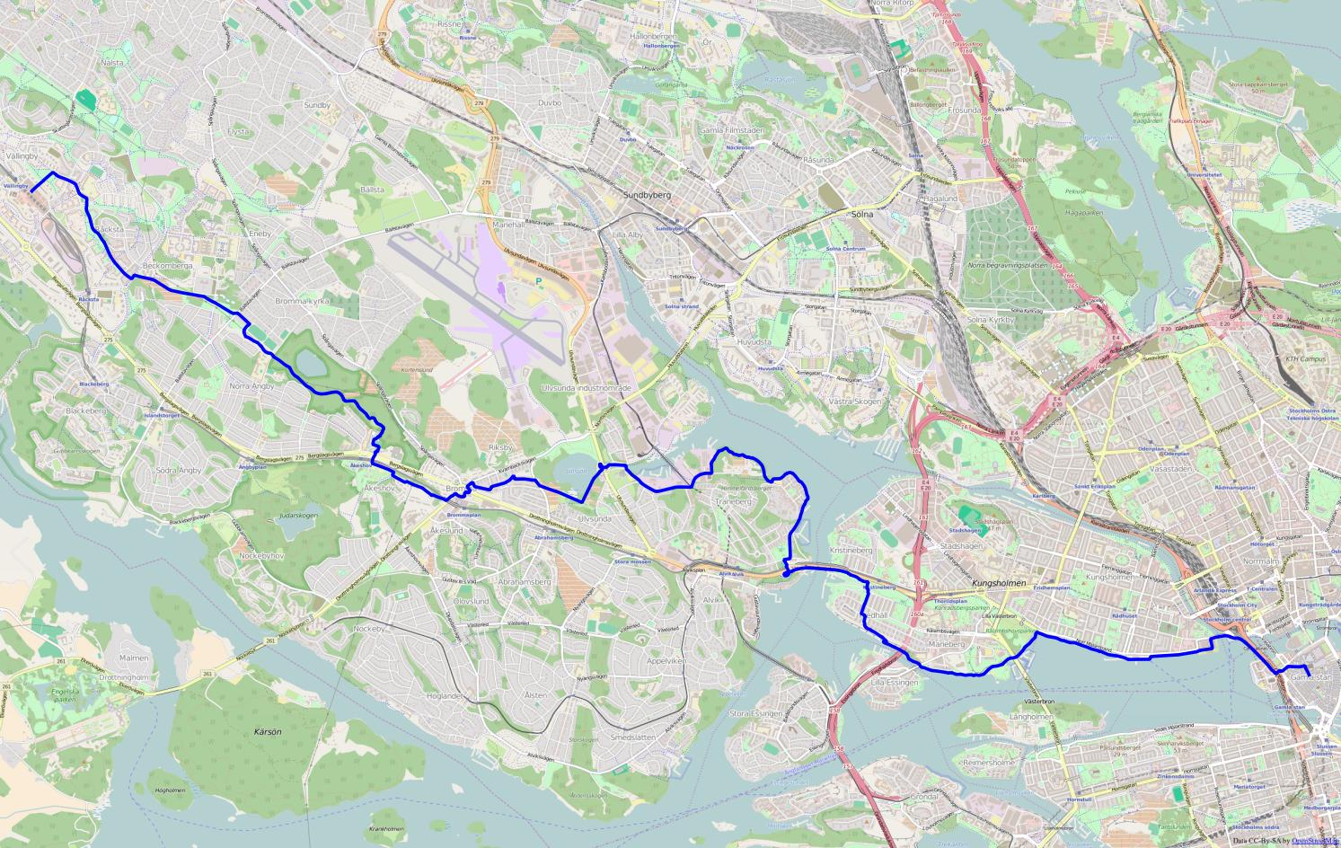 The Vällingbystråket hiking trail in Stockholm, Sweden.